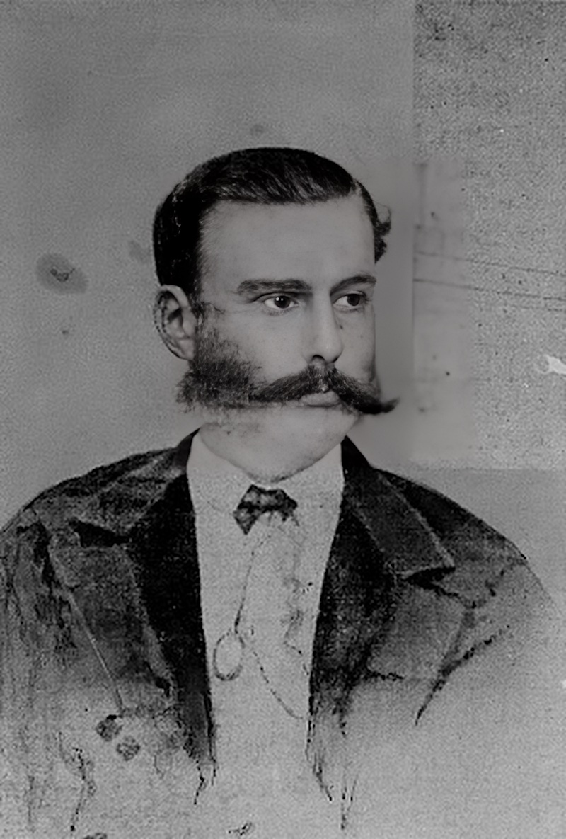 Samuel Cocking (1842 in Ireland - 26 February 1914 in Yokohama, Japan) was a British trader in Yokohama arriving in 1869, shortly after the “Opening of Japan”. He is most famous for the large greenhouse (660 m²) and gardens that he developed in Enoshima.